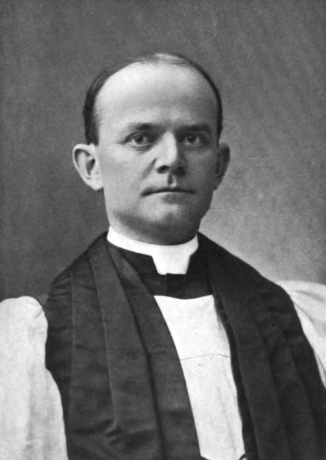 The Rt. Rev. Logan Herbert Rotts, second Bishop of the Missionary District of Hankow. Consecrated November 14, 1904.